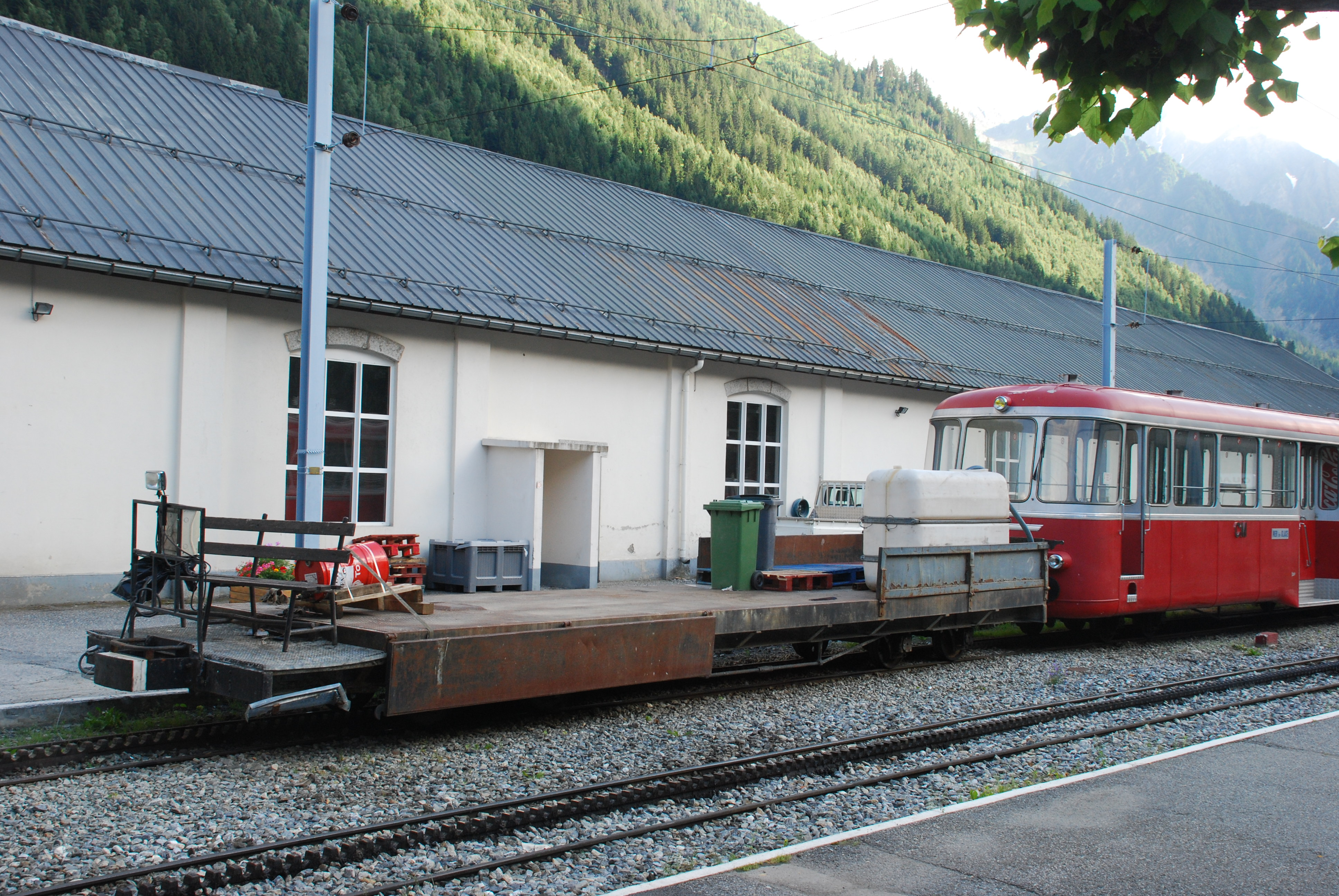 Wagon of the Montenvers railway.